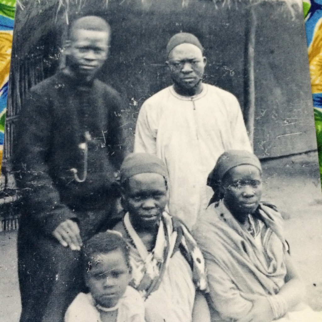 Cecil Majaliwa (in black) and others c. 1900. Majaliwa was the first African missionary in Tanganyika.